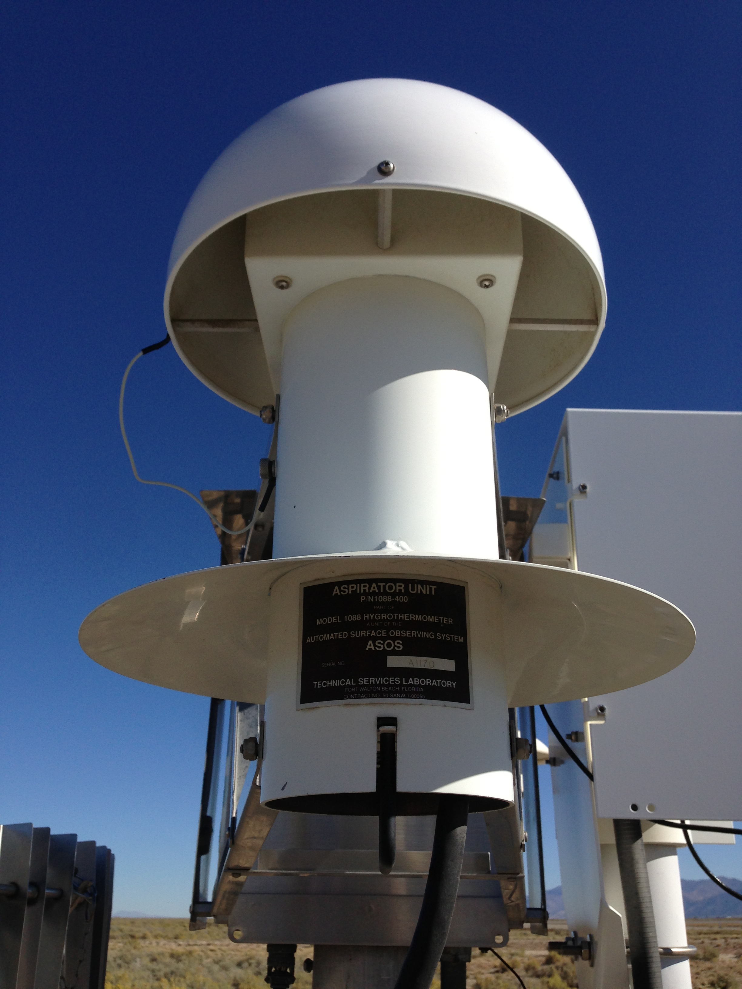 ASOS HO-1088 thermometer at Eureka Airport, Nevada